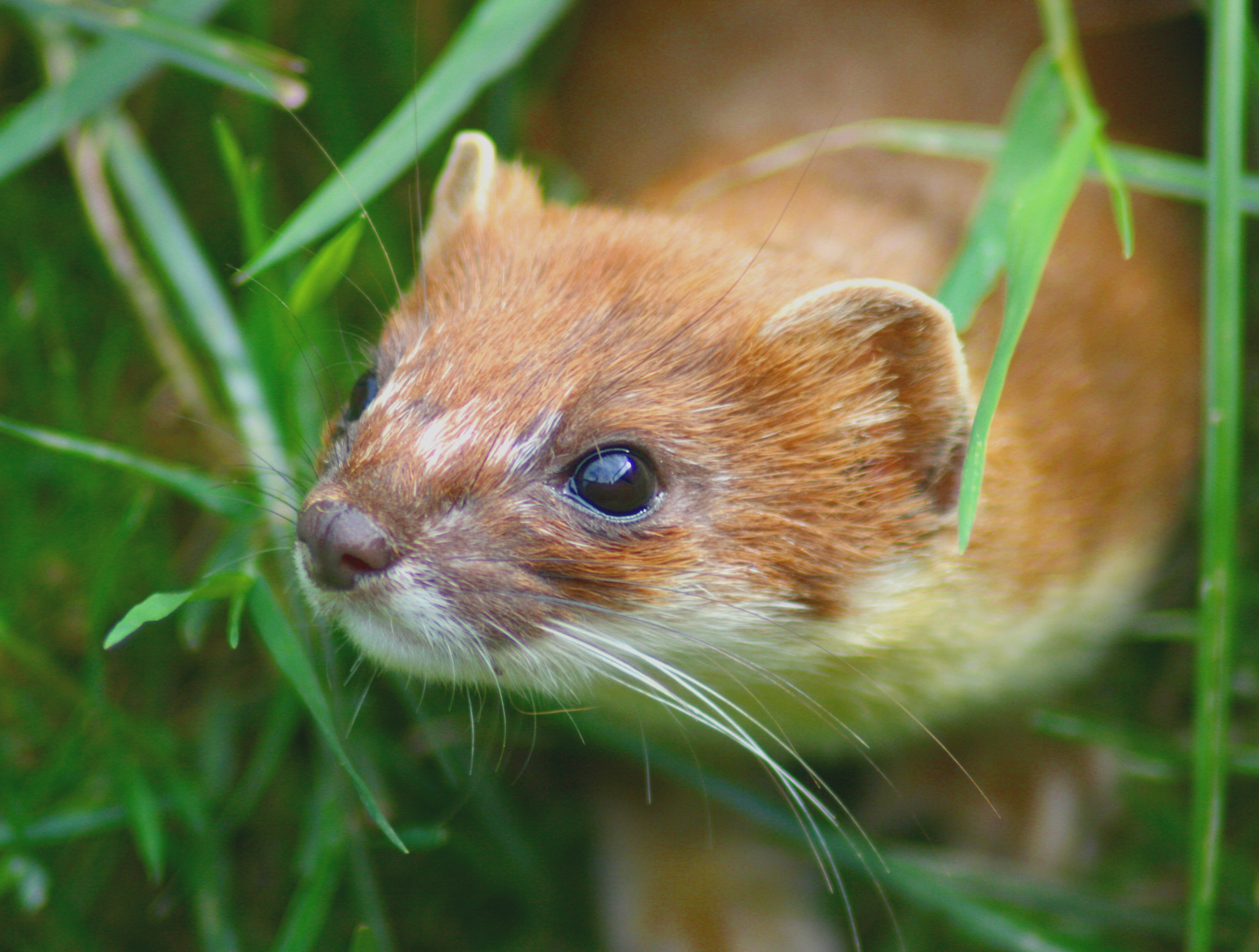 Stoat - British Wildlife Centre, Surrey, England - Sunday August 17th 2008.